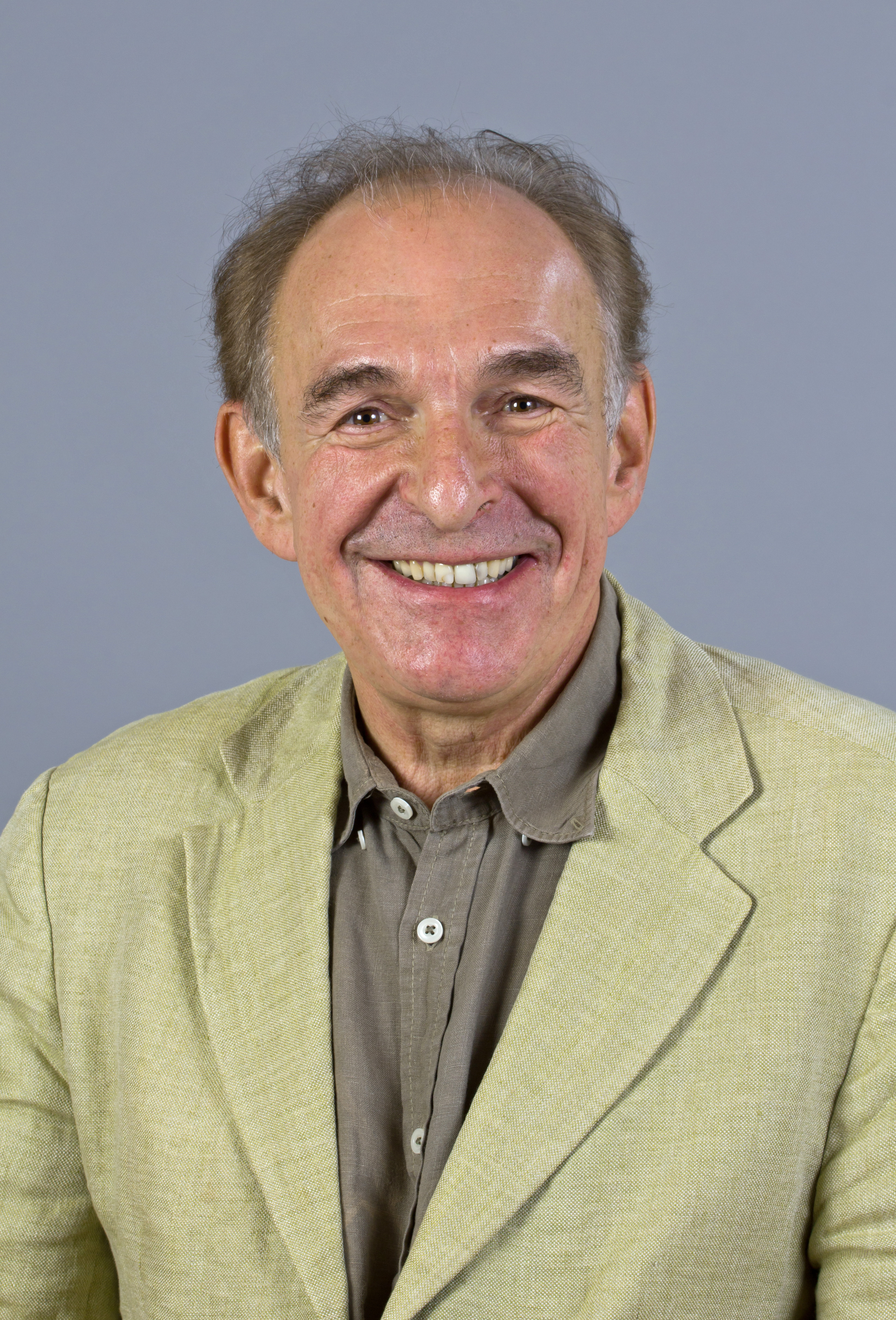 Michael Arndt, politician from Germany, member of Abgeordnetenhaus of Berlin (as of 2013)